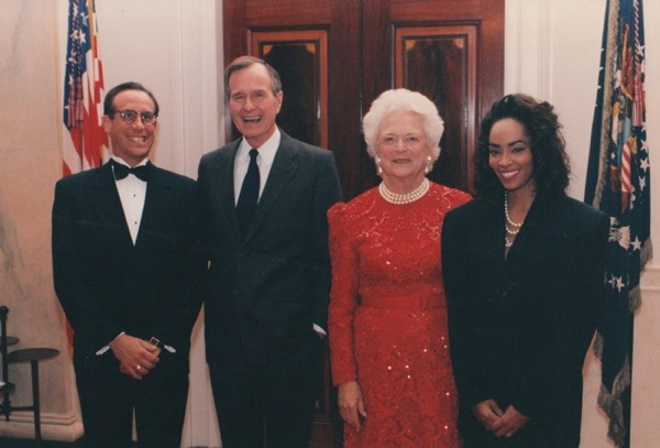 Jody Watley photographed with President George H. Bush, First Lady Barbara Bush and former manager Mark Shimmel at a 1992 appearance at The White House.